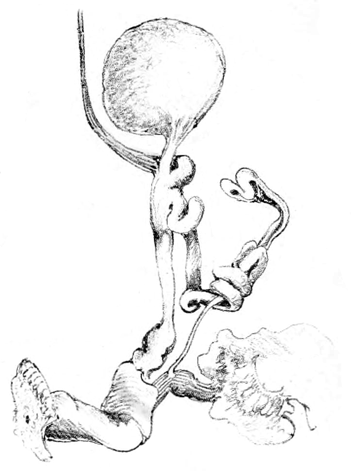 Drawing of "male part" of the reproductive system of Geomalacus maculosus.